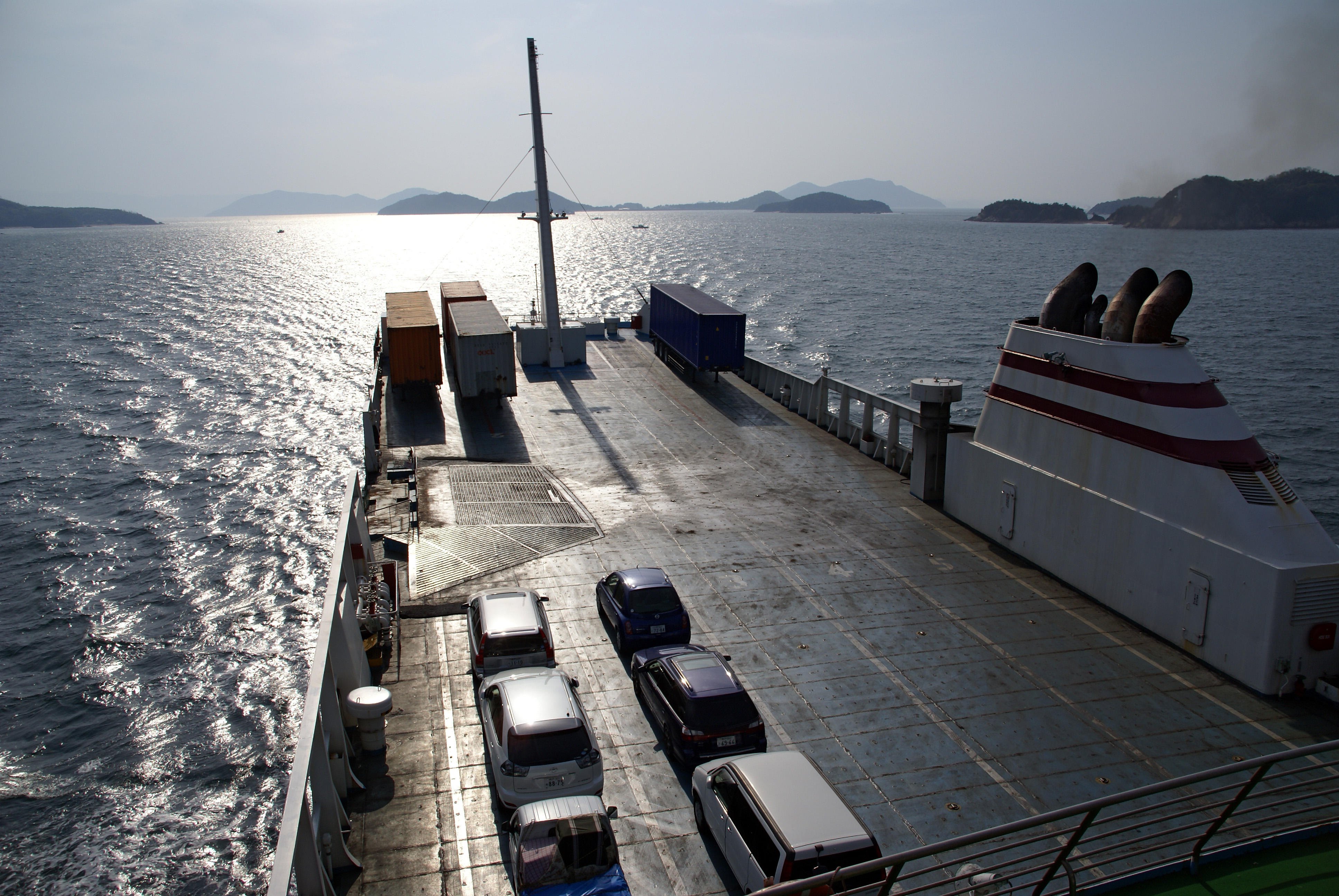 Ferry "Ritsurin2"